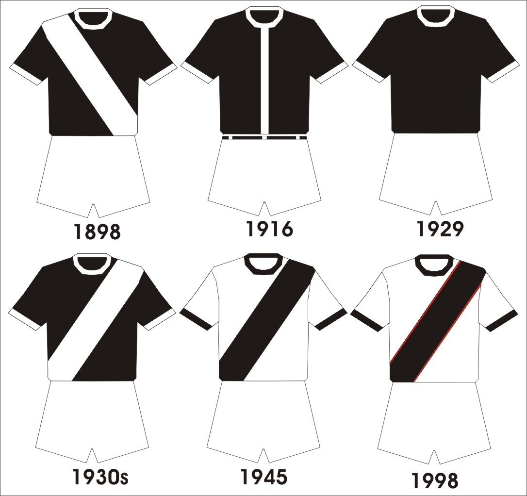 Vasco da Gama's historical kits (six kits). Made by myself, Carioca.